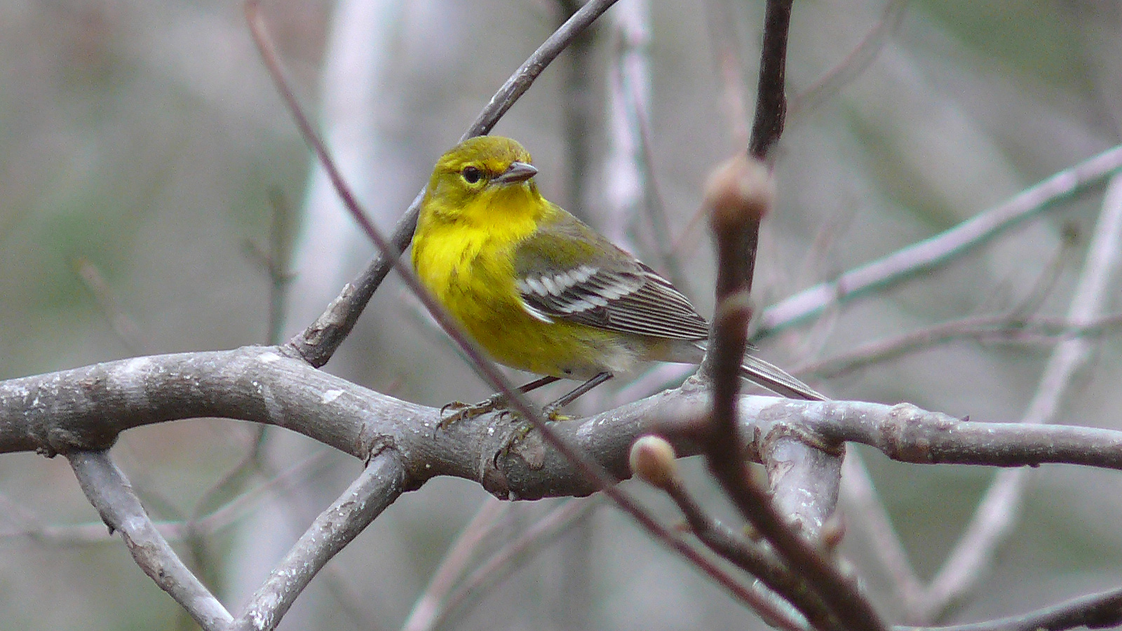 A Pine Warbler (Dendroica pinus) perched on a tree branch.Photo taken with a Panasonic Lumix DMC-FZ50 in Johnston County, North Carolina, USA.